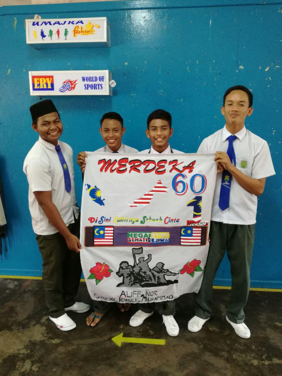 kain rentang